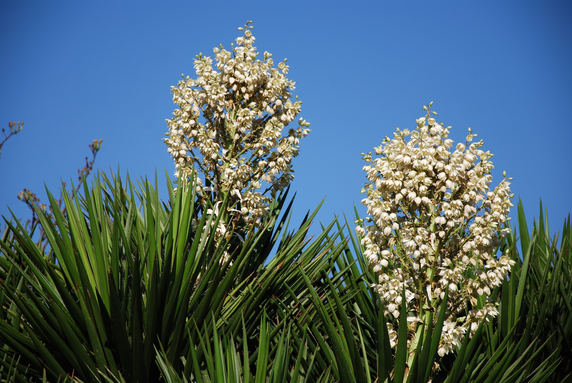 Xerophyte